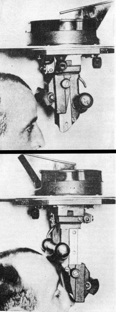 Gundlach Periscope used to look forward (upper panel) and backwards (lower panel).